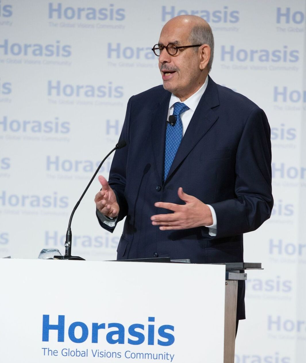 2018 Horasis Global Meeting, Cascais, Portugal, 5-8 May